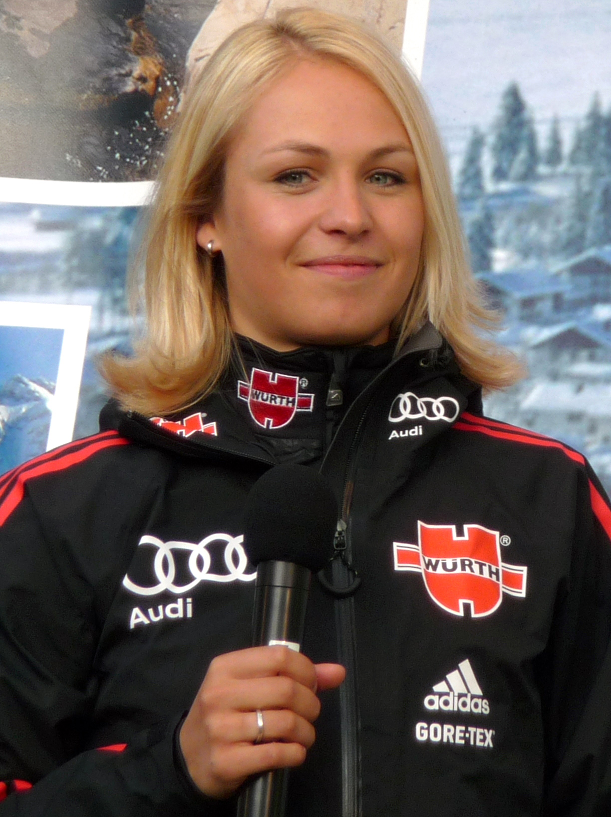 Biathlete Magdalena Neuner at a festivity in Wallgau, Germany, April 29, 2011